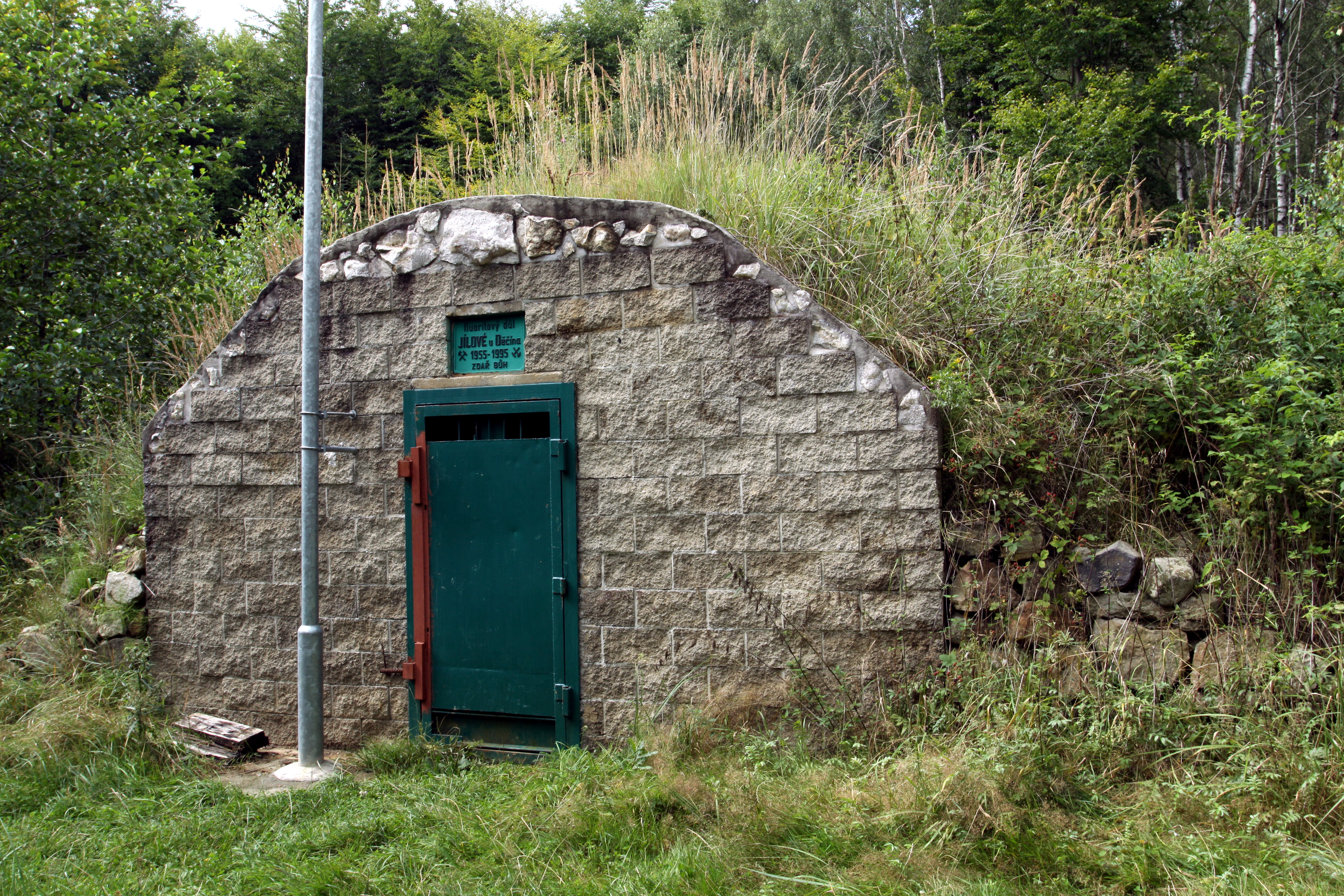 Natural monument Jeskyně pod Sněžníkem close to Jílové village in Děčín District, Czech Republic